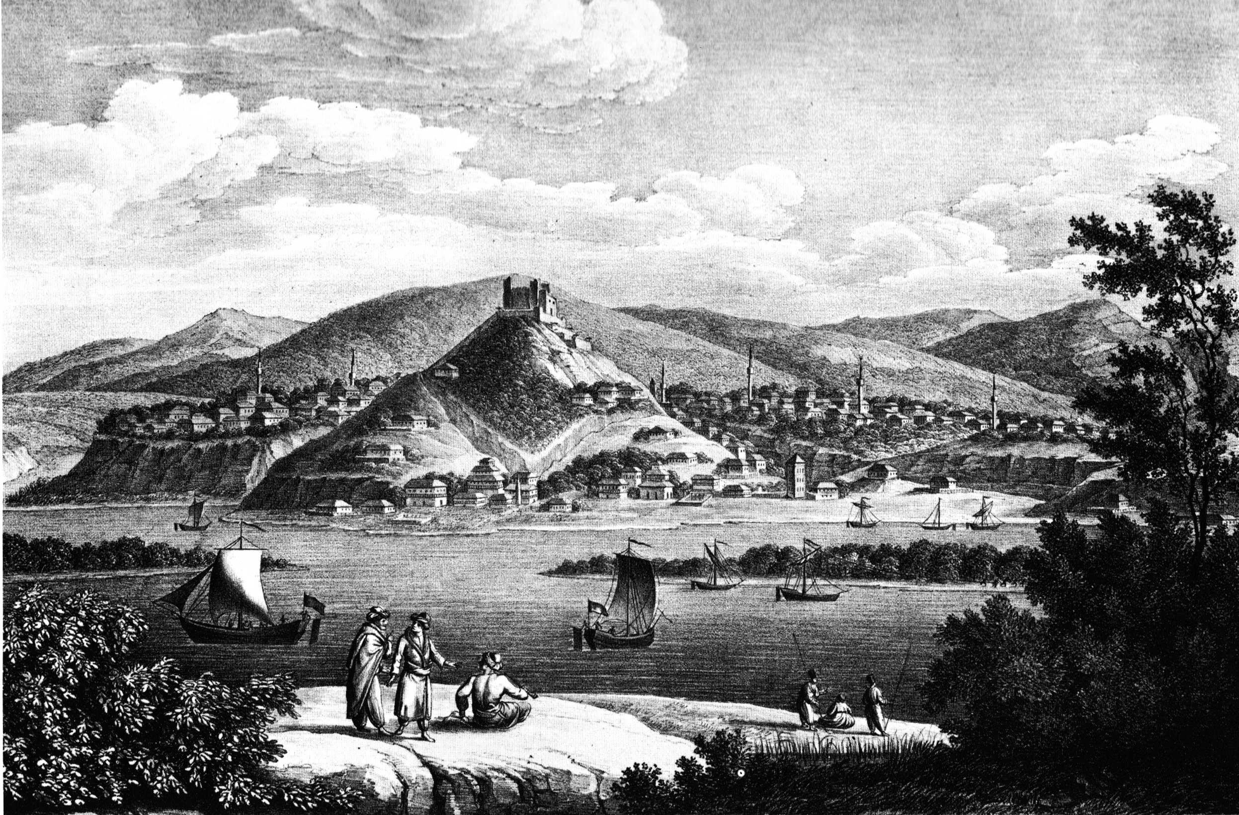 Svishtov in Bulgaria 1824. Drawing by Erminy, lithographing by Adolph Kunike